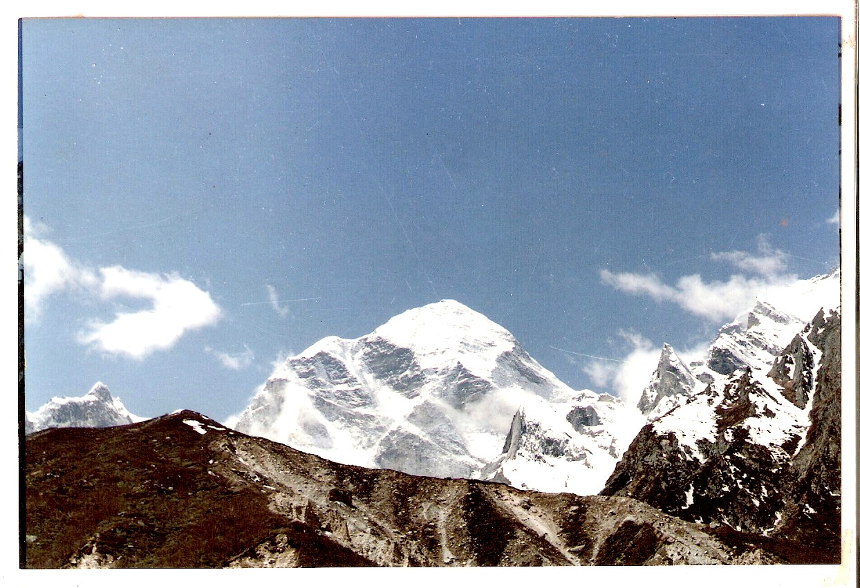 This picture was taken by me during trekking towards Nandanban